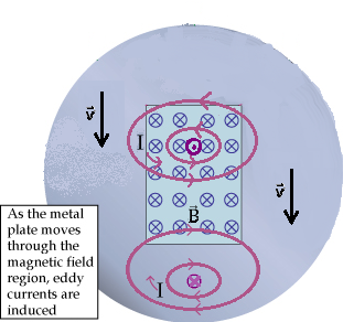 As the circular metal plate moves down through a small region of constant magnetic field directed into the plate, eddy currents are induced in the plate. The direction of these currents is given by Lenz's law.